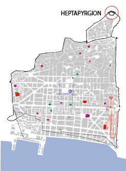 Location of the Heptapyrgion in Thessaloniki. Drawing by Marsyas 19:02, 9 March 2006 (UTC)